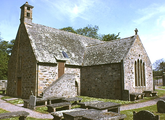 Cullen Auld Kirk. A recent listed building report by Historic Scotland is at